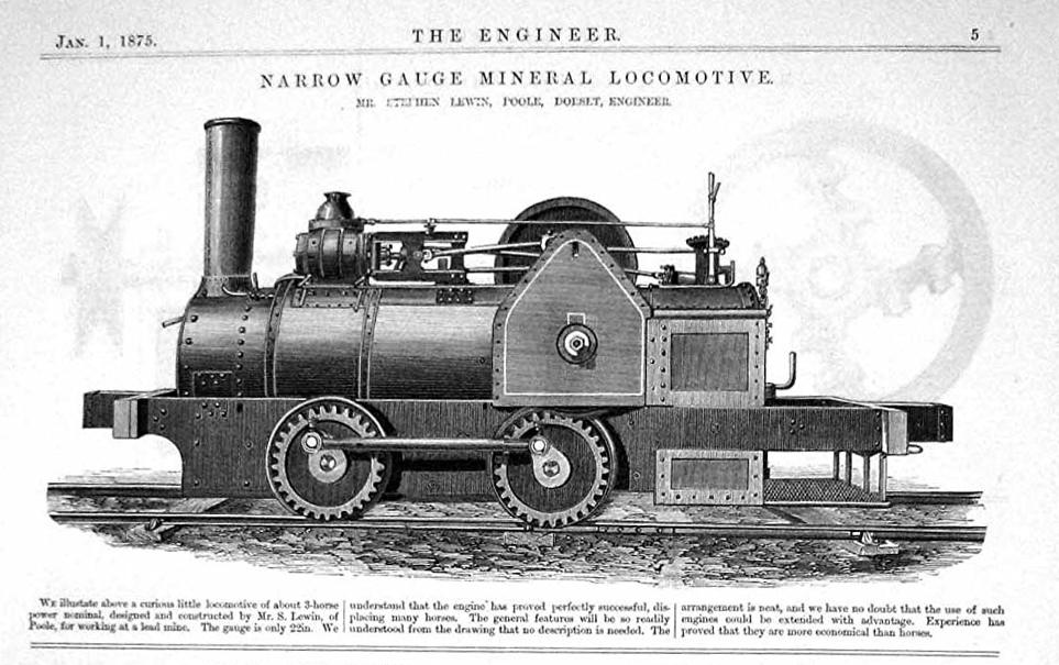 Narrow gauge mineral locomotive by Mr Stephen Lewin, Poole, Dorset, Engineer (The Engineer, 1 January 1875)